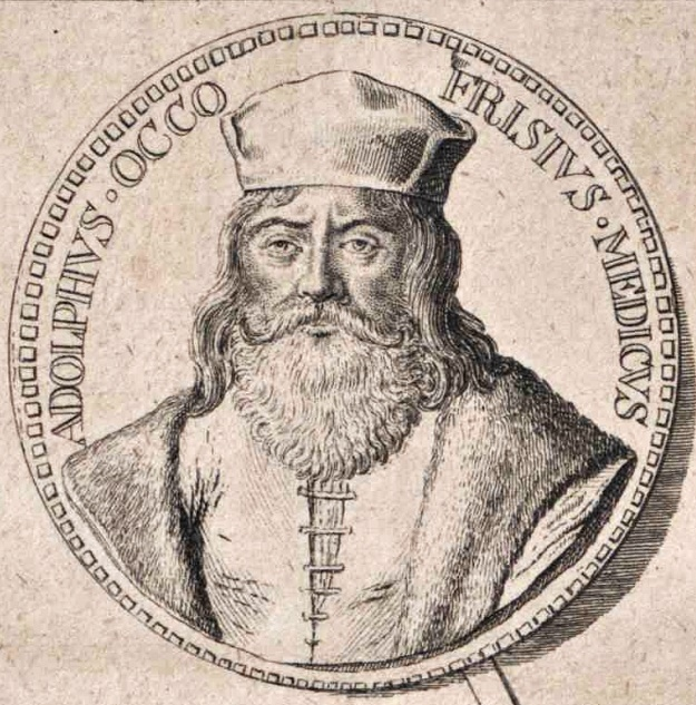 Adolph Occo I. (1447-1503), Augsburg, fürstlicher Leibarzt